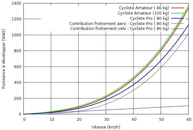 Evolution of the friction power of a cyclist versus its speed.